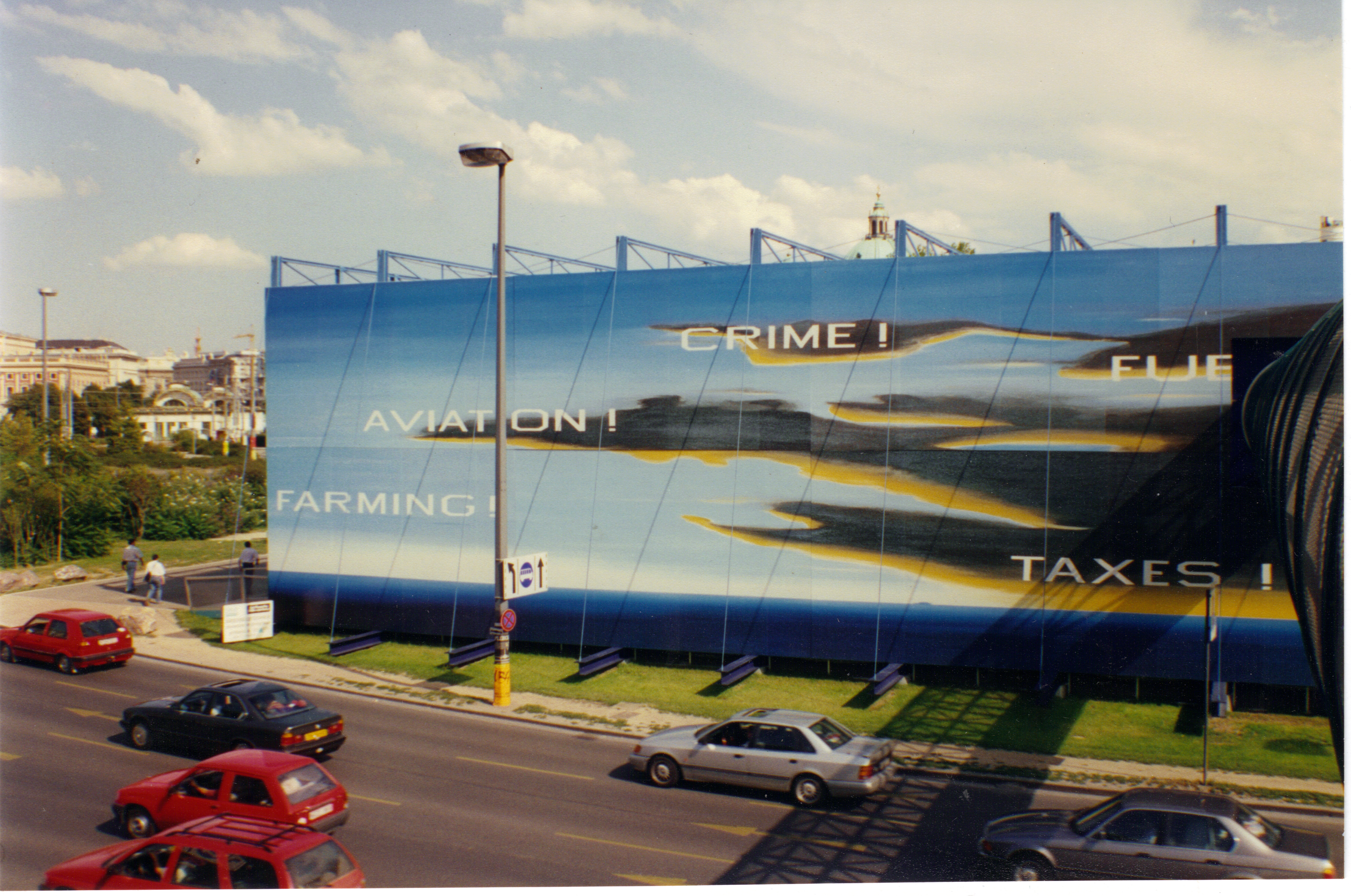 Temporary Kunsthalle (public exhibition space) on Vienna' Karlsplatz. Existed 1992 -2001. Architect Adolf Krischanitz. Highly controversial "Container" building in the center of Vienna